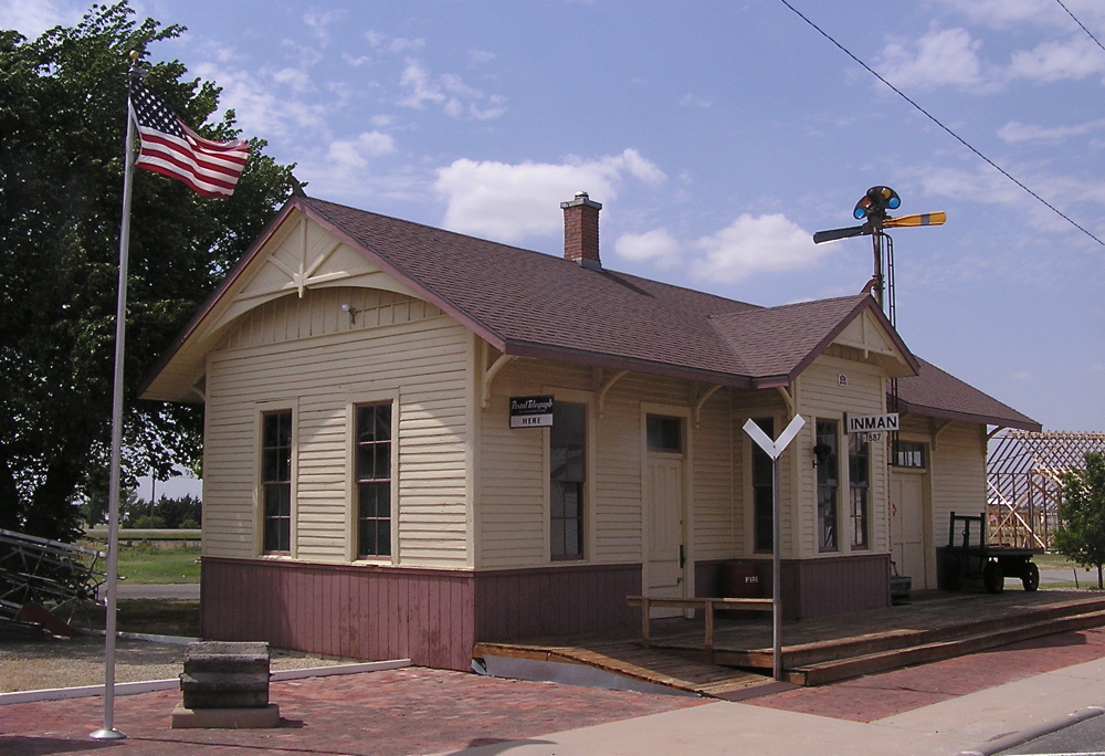 Former Rock Island railroad station in Inman, Kansas, May 27, 2012.